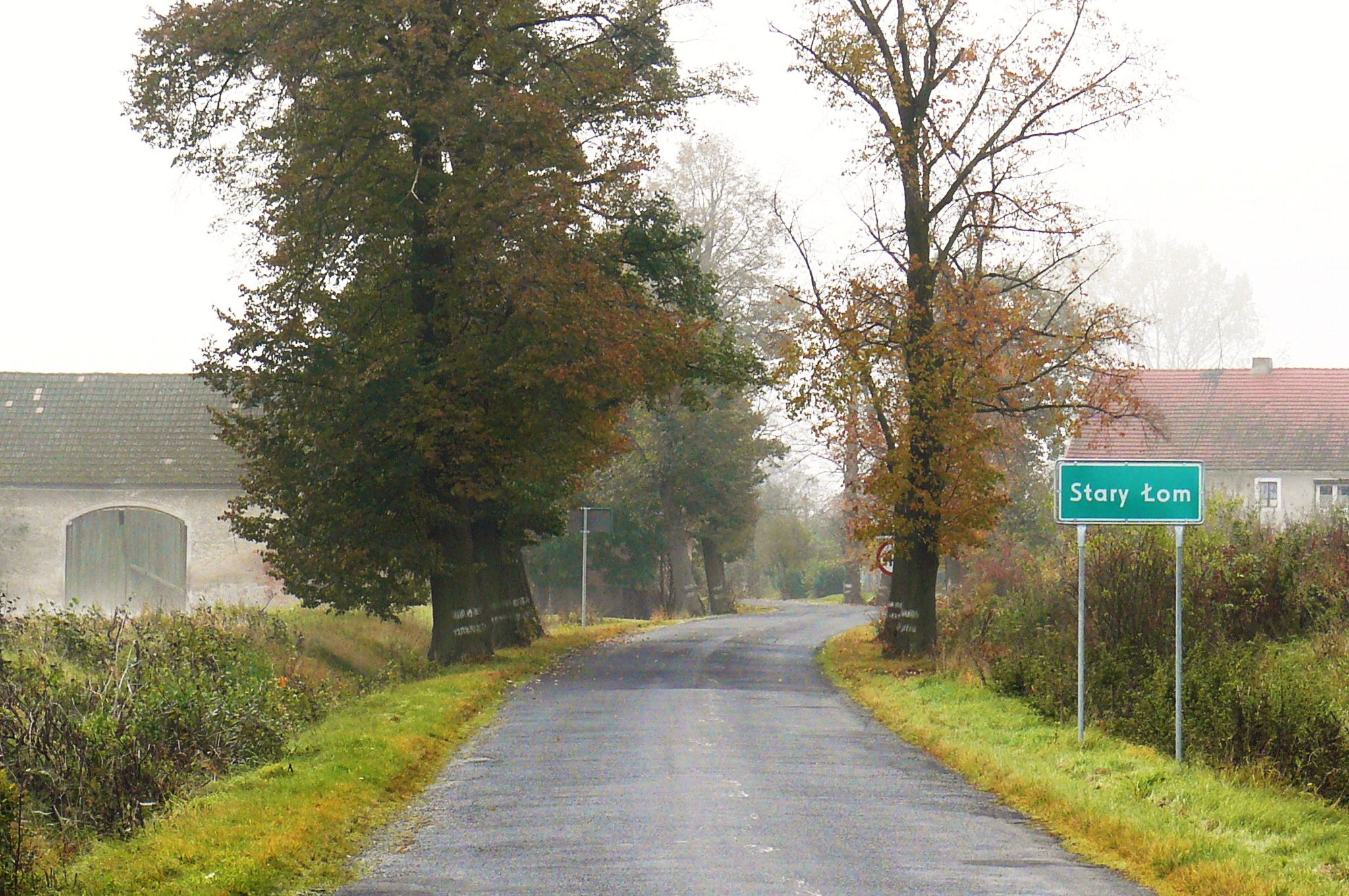 Stary Łom.